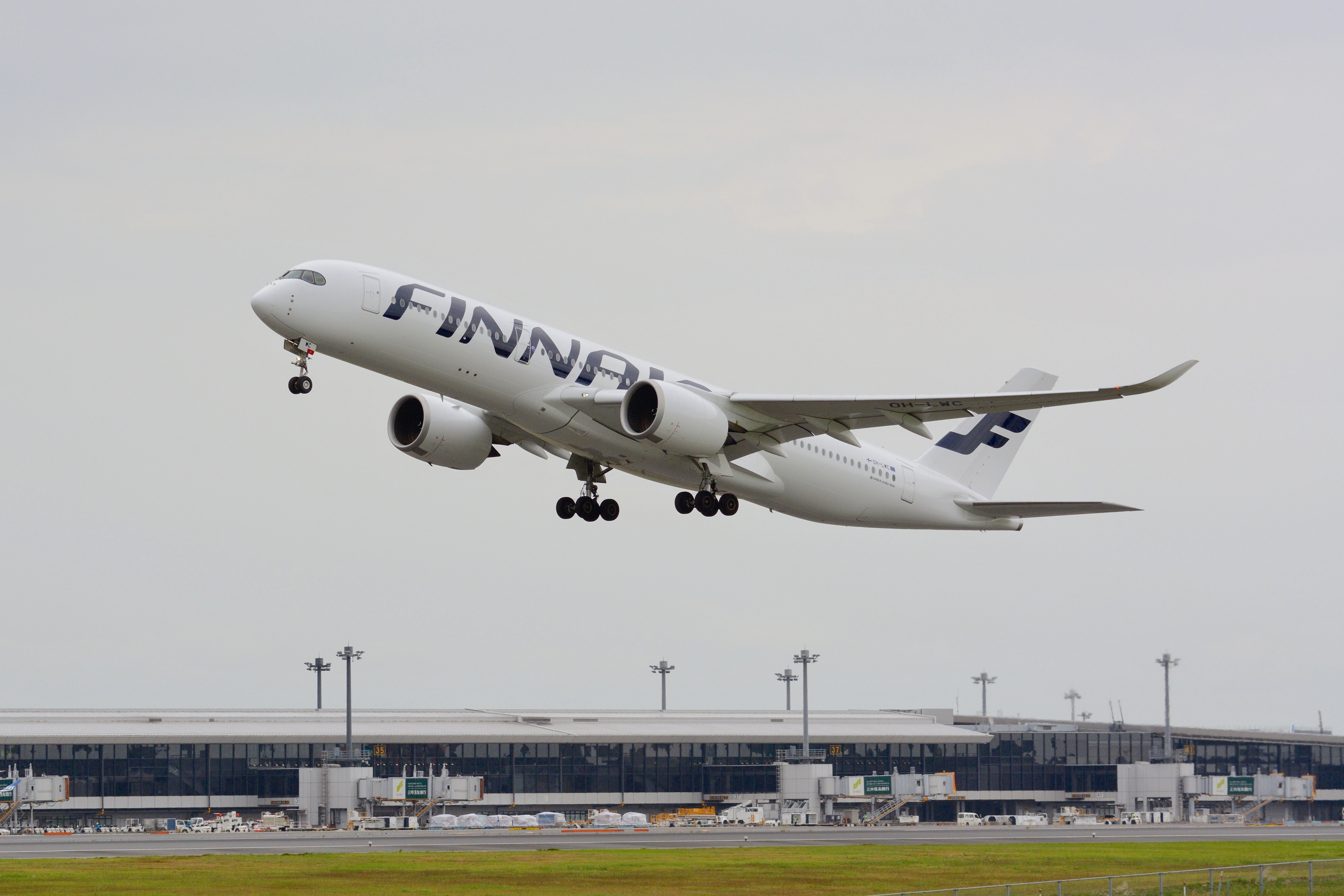 Finnair, Airbus A350-900 OH-LWC NRT